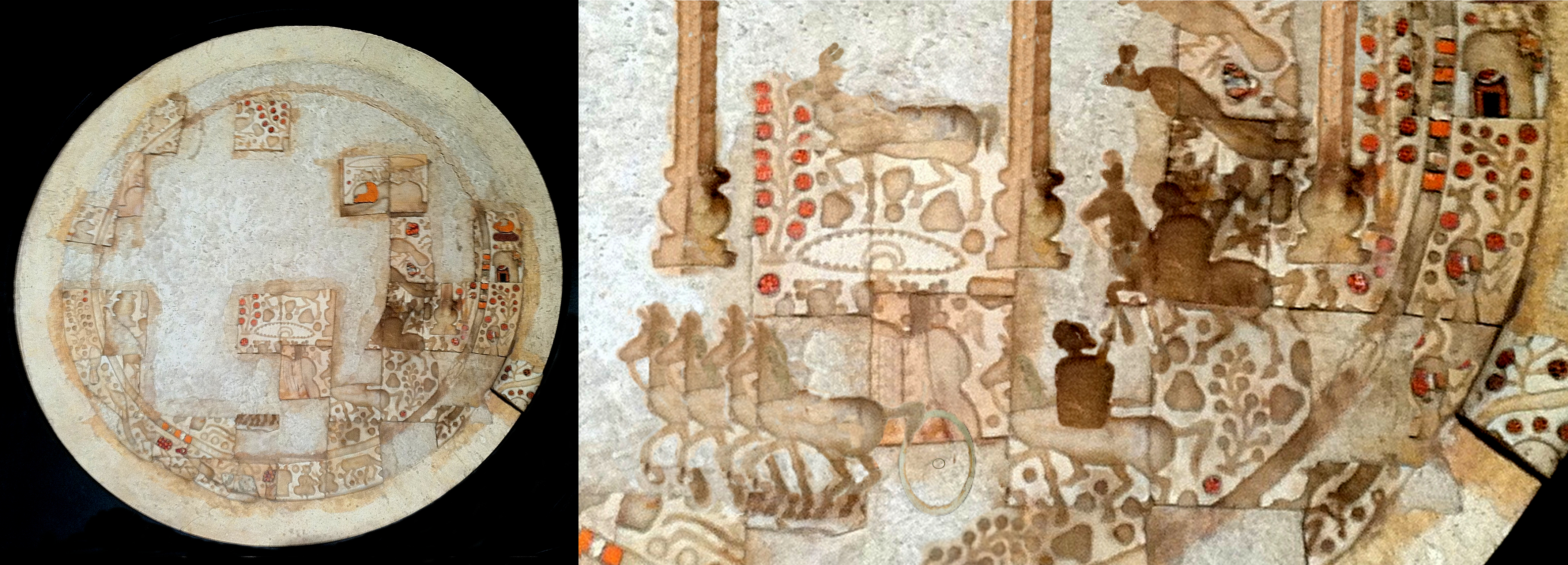 Ai Khanum Sakuntala plate reconstitution.Photographical reconstitution of missing parts. Similarity with the designs of the Kulu vase